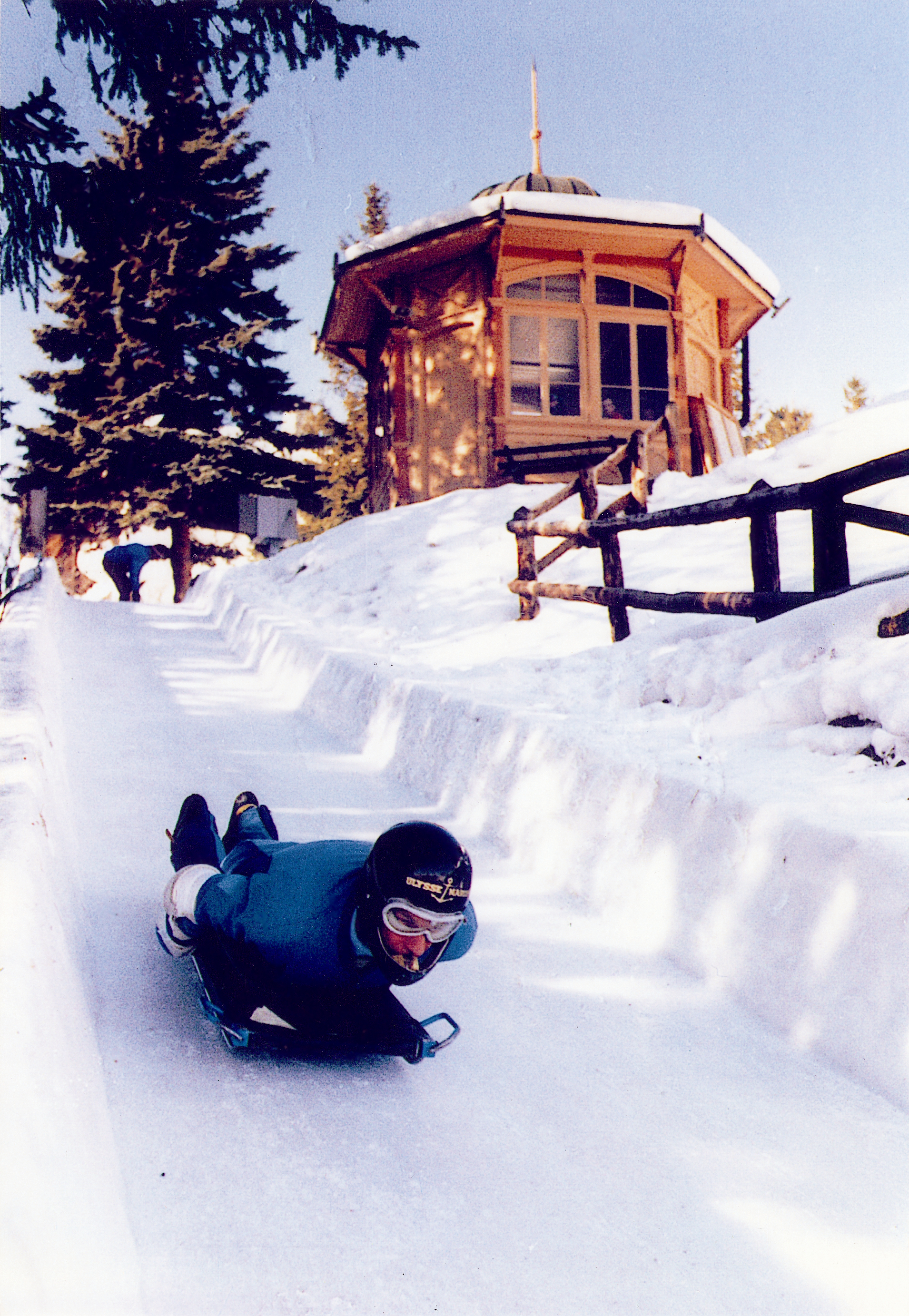 Picture of Rolf W. Schnyder at the Cresta Run.